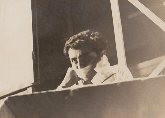 José Luiz veda a própria boca em resposta à censura sofrida em "Diário de um Louco", em 1969.